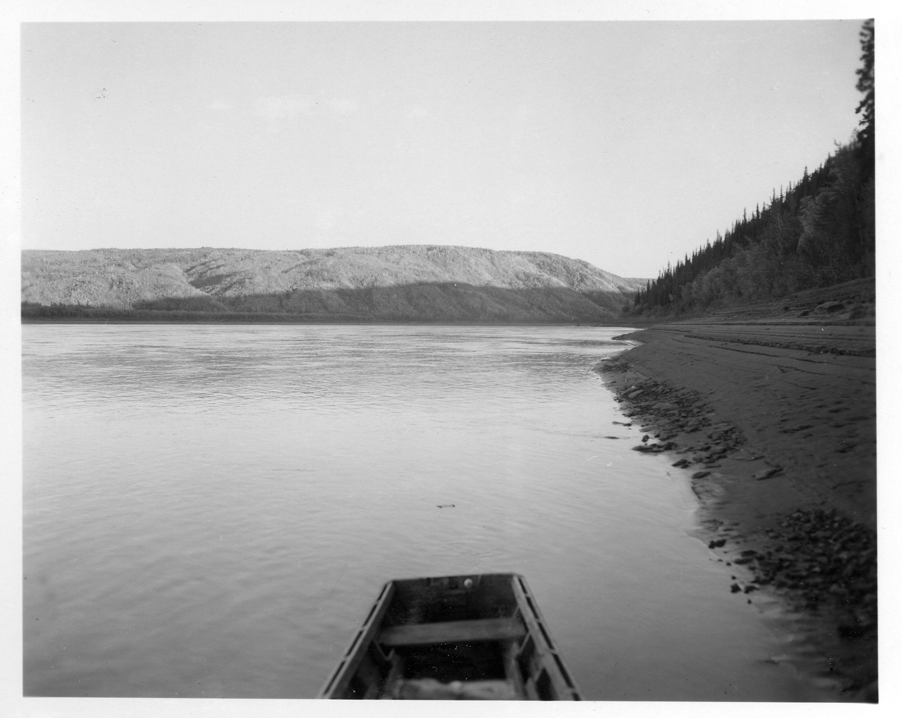 Entrance to upper end of Fort Hamlin-Rampart Canyon of Yukon River. View downstream. Bluffs on both banks are in "Rampart Group" volcanics of lower Mississippian age, capped with stream gravel (not exposed) and surficial eolian silt. Yukon Flats district, Yukon region, Alaska.